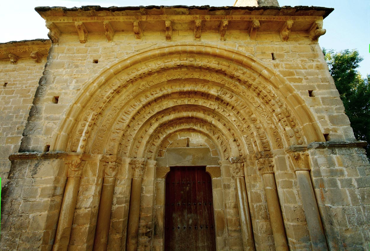 Home North of the church of San Pedro de Etxano - Olóriz, Valdorba, Navarra